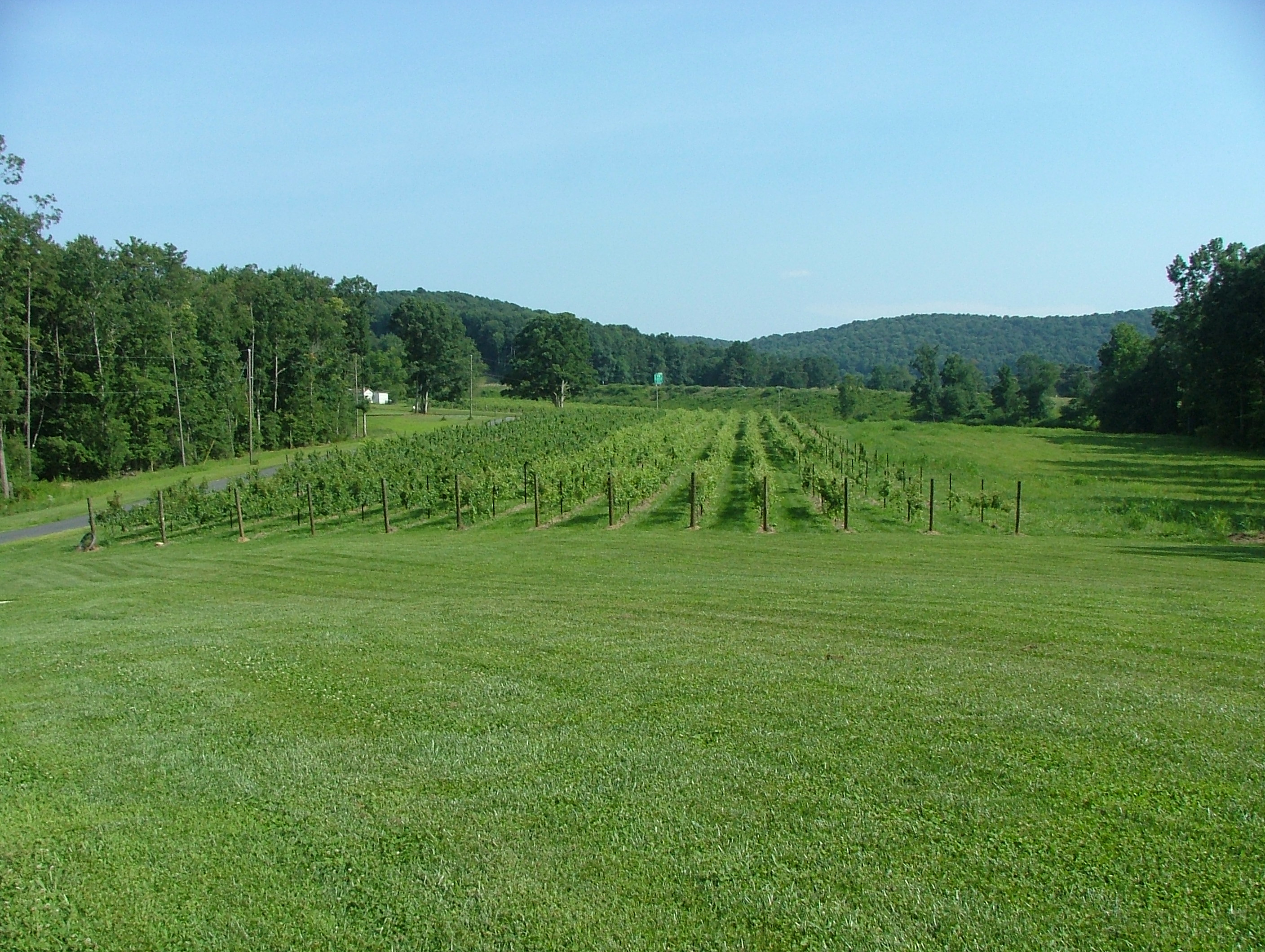 Vineyard in Swan Creek, Yadkin Valley, North Carolina